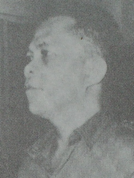 Lt. Col. Untung, Military commander of the 30 September Movement on trial in Jakarta